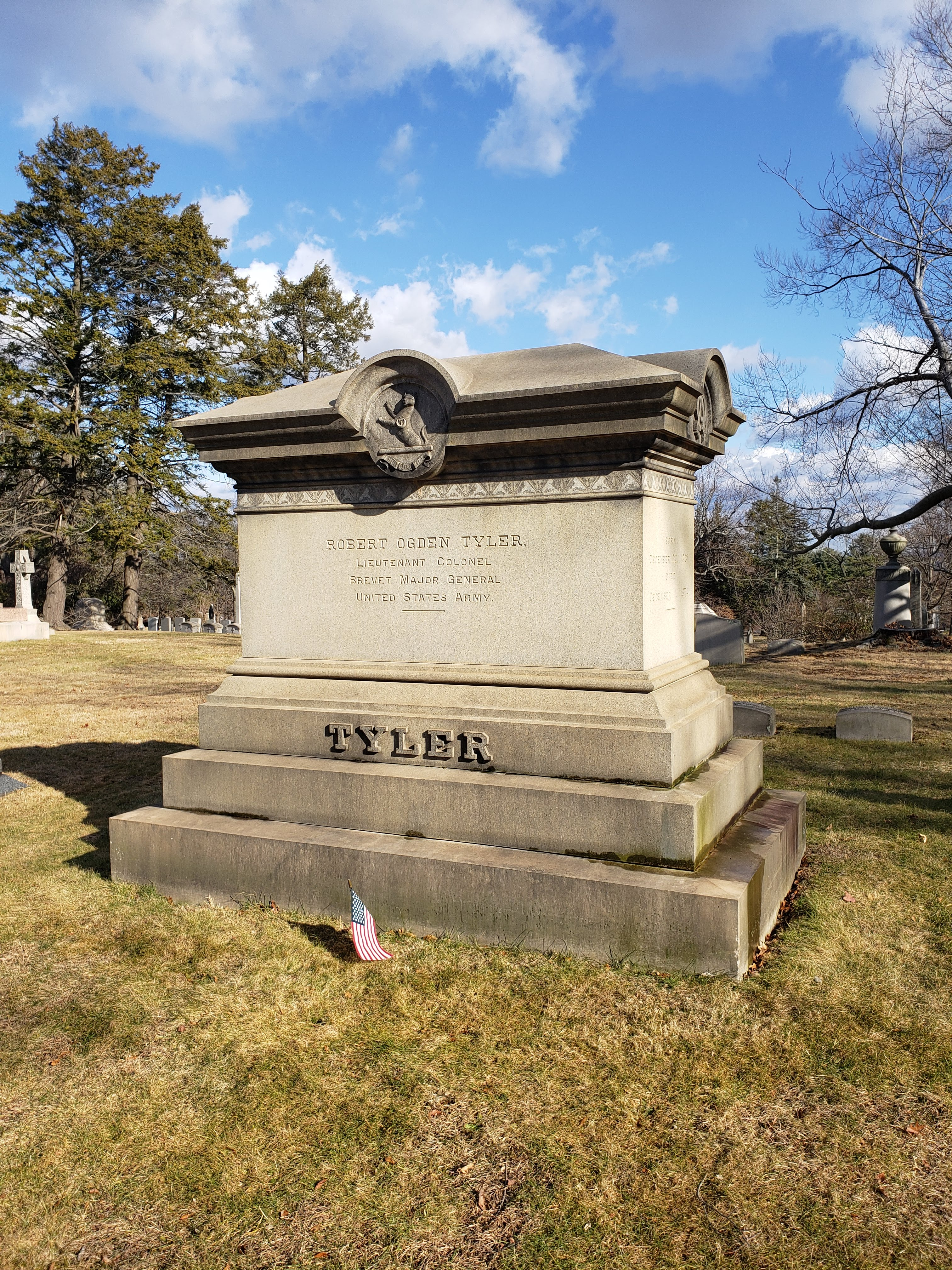 Robert Ogden Tyler memorial in Cedar Hill cemetery in Hartford, Connecticut. Photo taken January 2020.